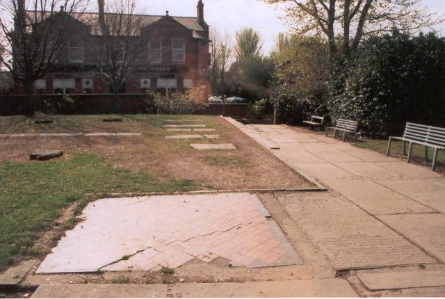 St. Clement's Churchyard, Chorlton Cum Hardy. There isn't anything left of St. Clements other than an arch leading into the old churchyard and the flat gravestones. AT the end of the churchyard you can see the Bowling Green pub